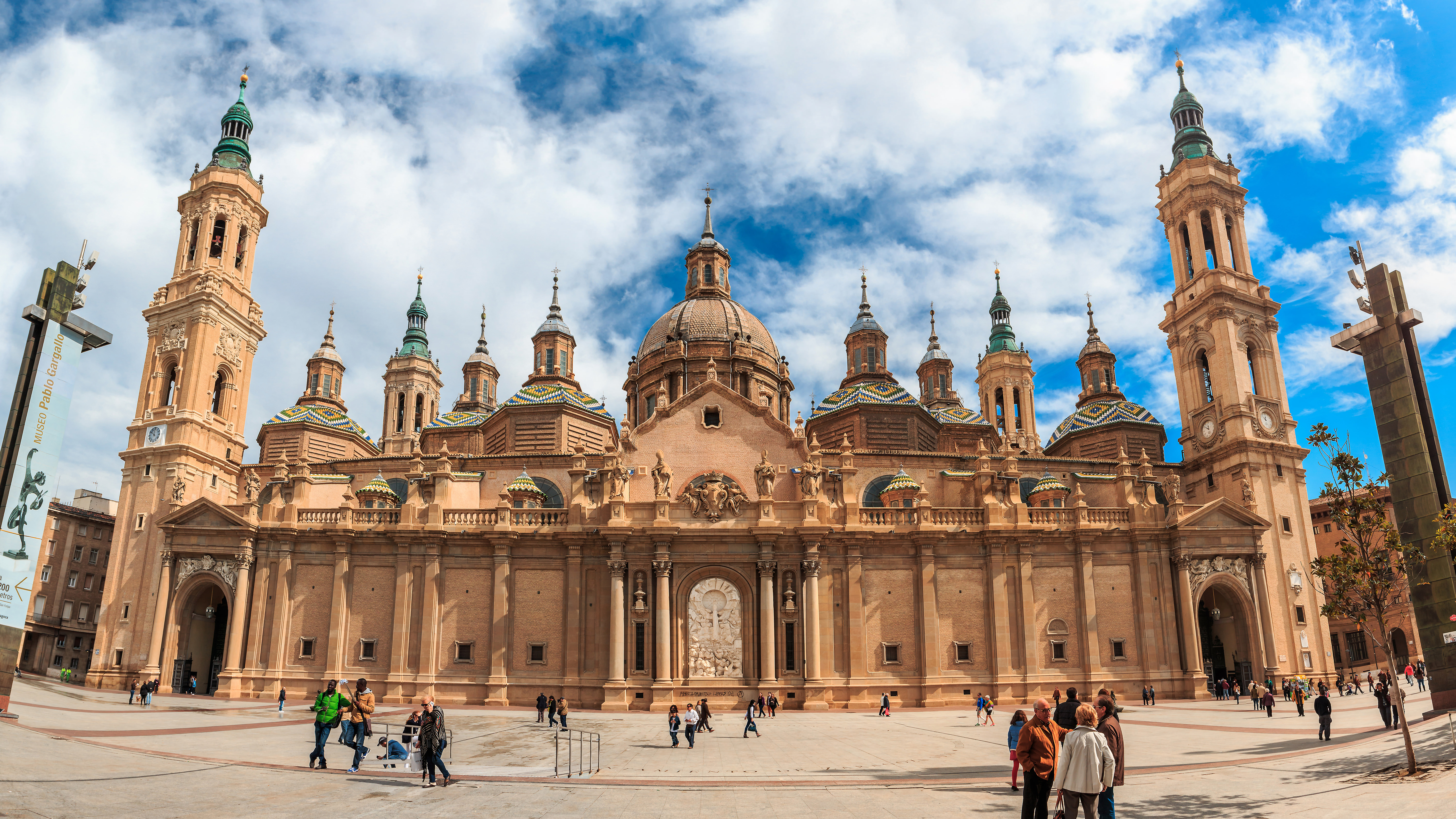 Front view of Cathedral-Basilica of Our Lady of the Pillar in Zaragoza, Spain